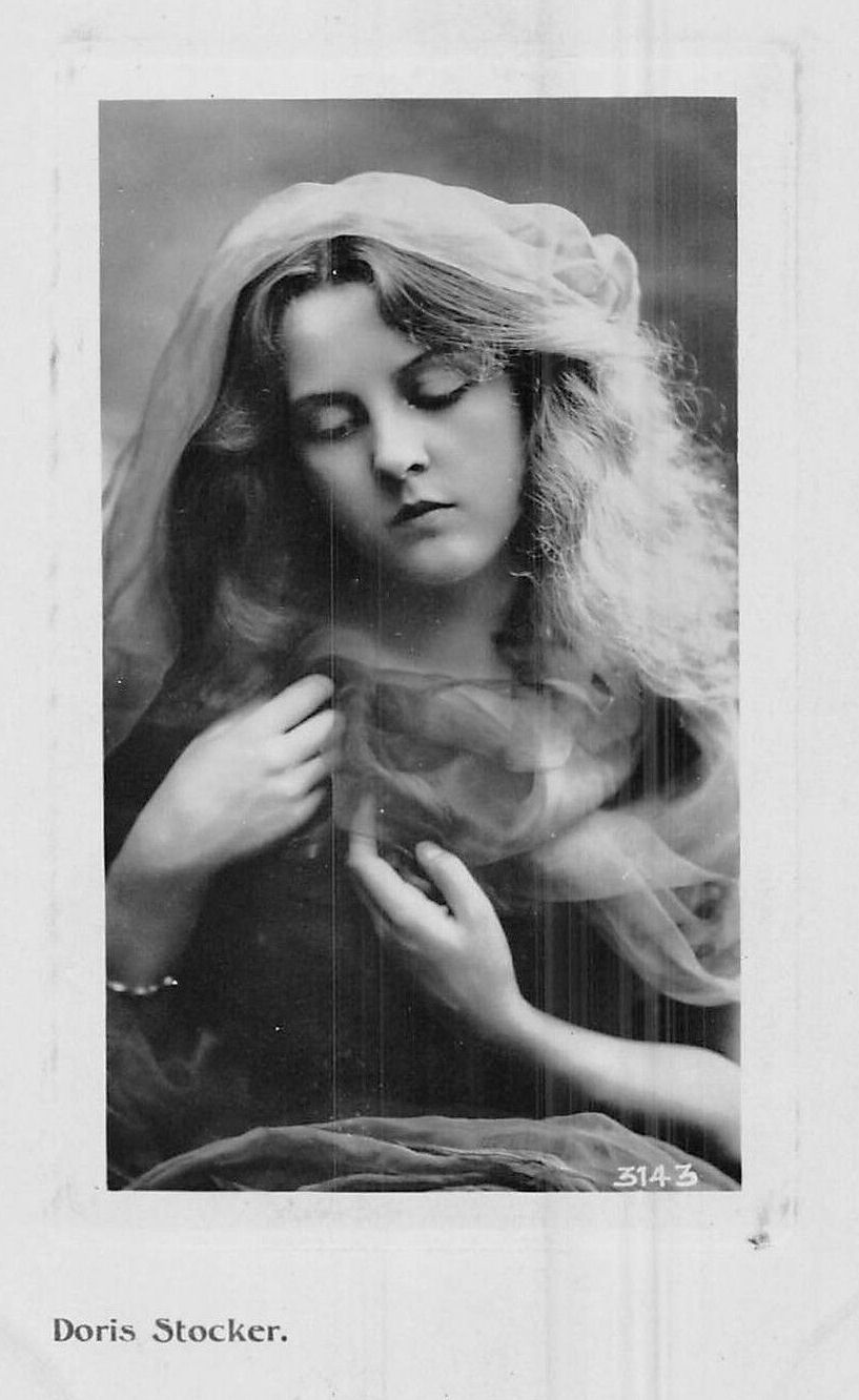 The actress Doris Stocker (1886-1968) photographed in 1906